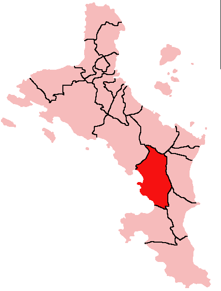 Map of Mahe Island, Seychelles showing Anse Boileau District; created with the GIMP. Made by User:Acntx.